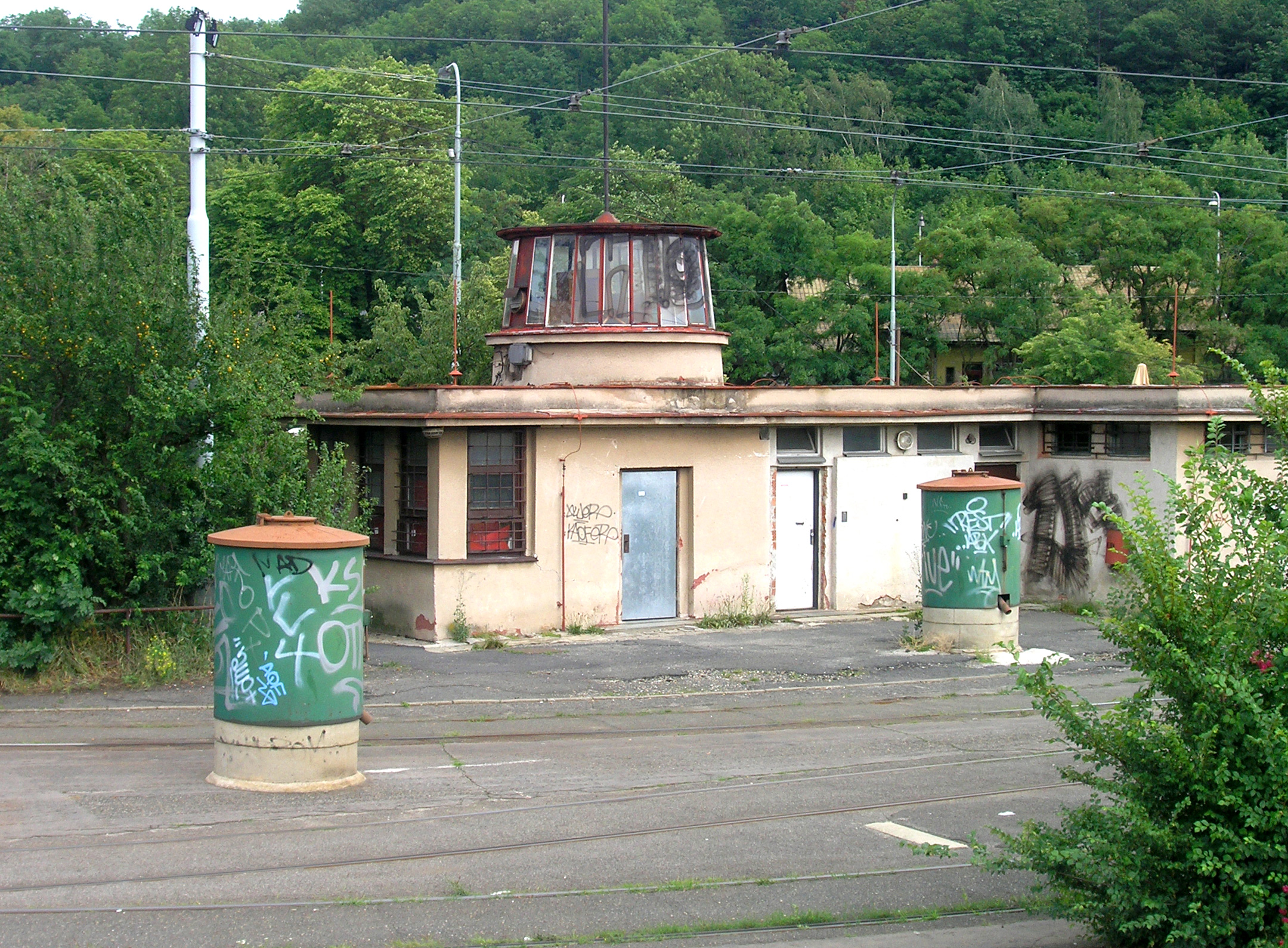 Former tram traffic controller stand by Braník railway station at Braník, Prague